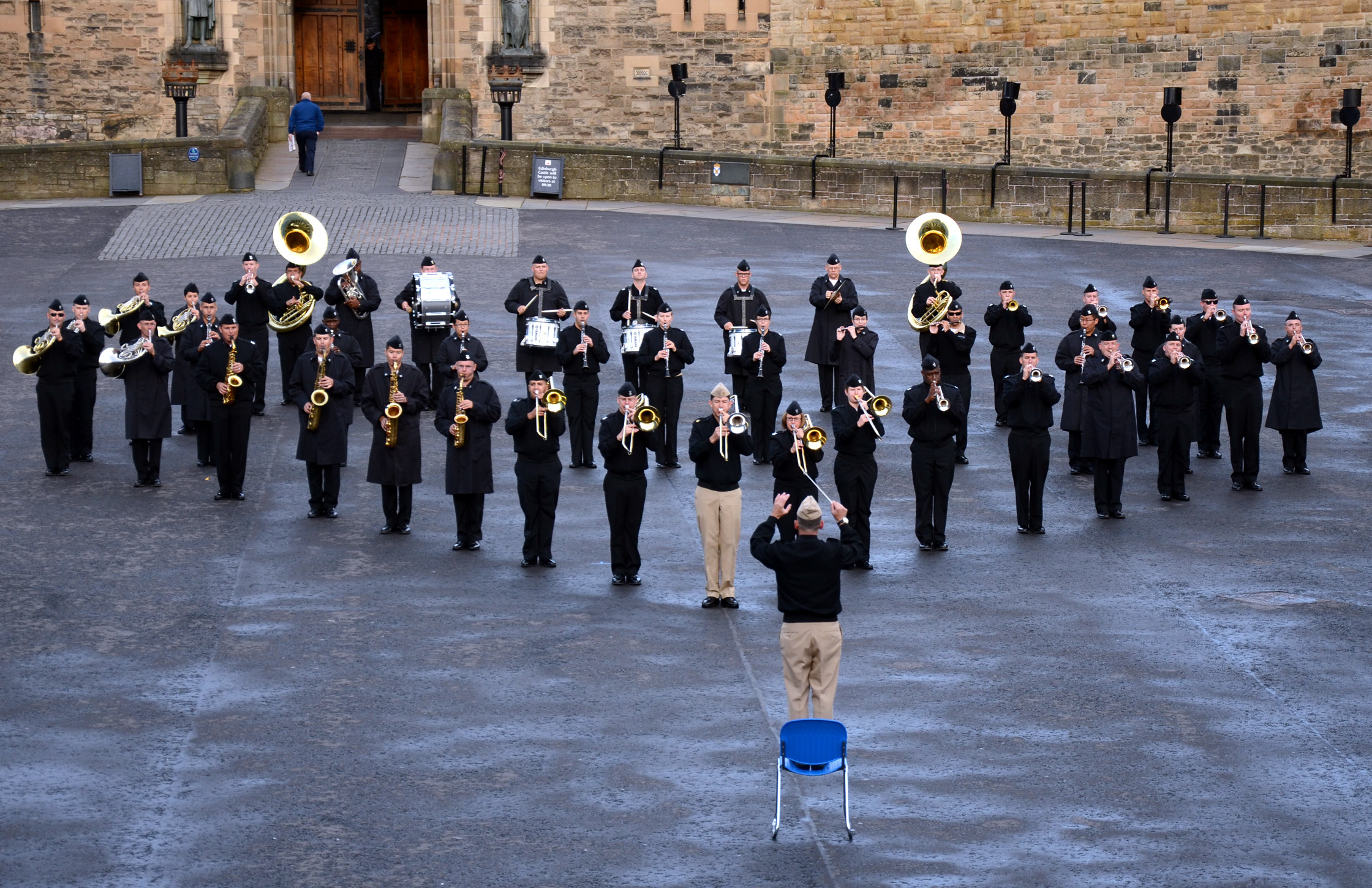 U.S. Navy Lt. David Latour, the band director and conductor during event, leads the U.S. Naval Forces Europe Band as it rehearses one of the songs it will play during the Edinburgh tattoo to be held outside Edinburgh, Scotland, castle July 30, 2012. The band was in Edinburgh to perform in the Royal Edinburgh Military Tattoo with musicians, dancers and bagpipers from around the world coming to perform in the monthlong show. This was the first year since 1950 that a Navy band has performed.